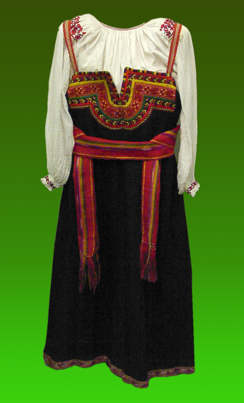 Template:Sarafan. Folk costume of Shebekinsky District. Beginning of 20 century